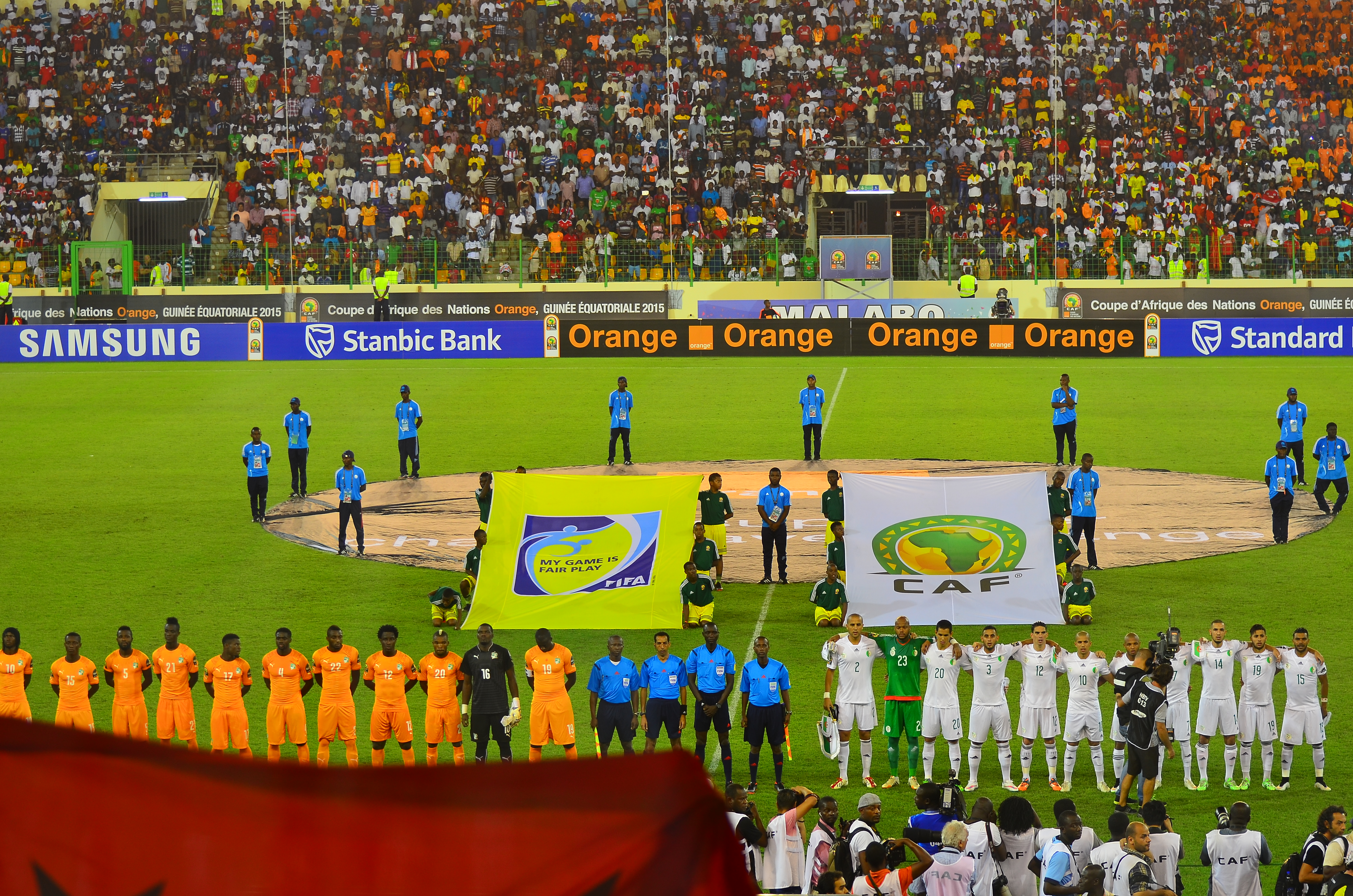 Algeria national football team In the Africa Cup of Nations 2015